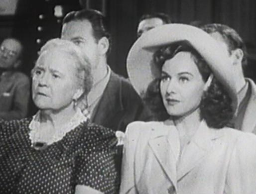 Mary Gordon & Paulette Goddard in Pot o' Gold - cropped screenshot